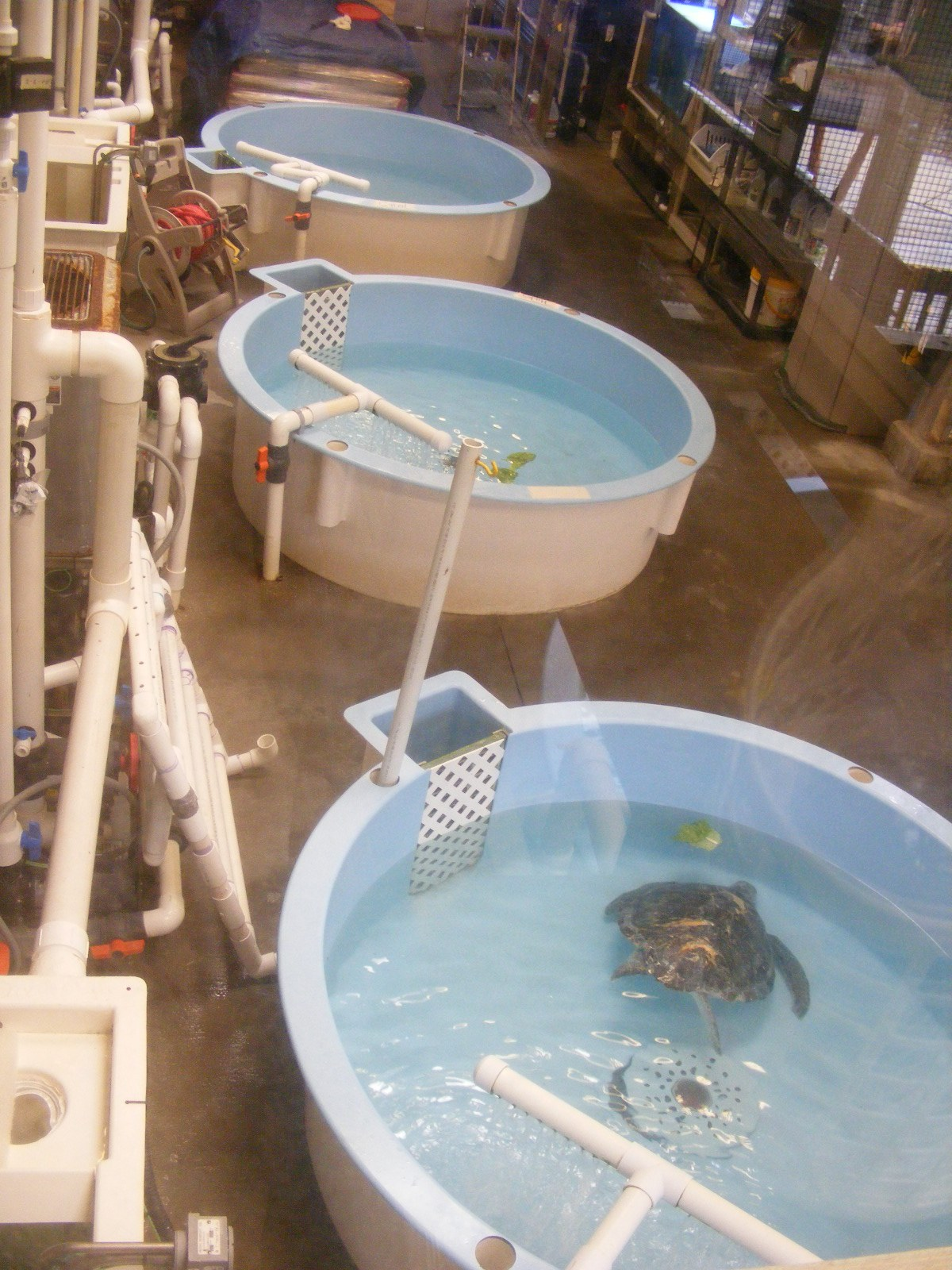 Turtles being cared for at the Marine Science Center in Ponce Inlet, Florida. (WT-shared) Gamweb 06:02, 6 August 2008 (EDT).